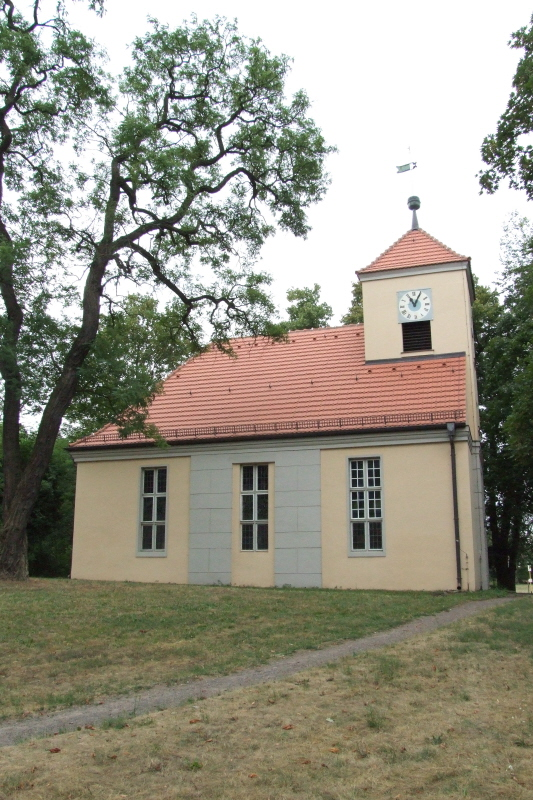 The village church of Schmöckwitz, Treptow-Köpenick, Berlin.